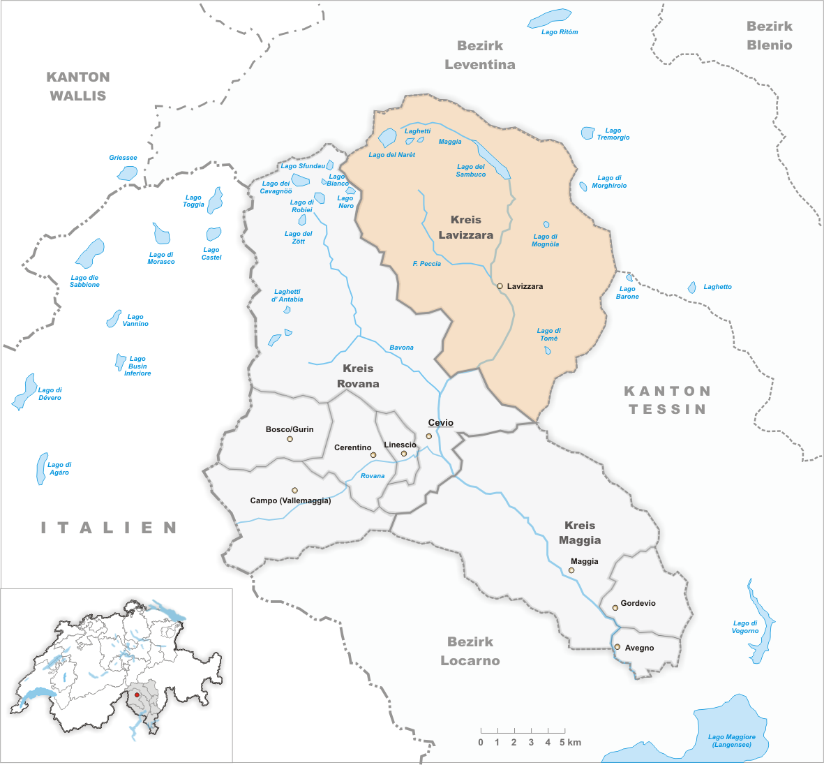 Municipality Lavizzara